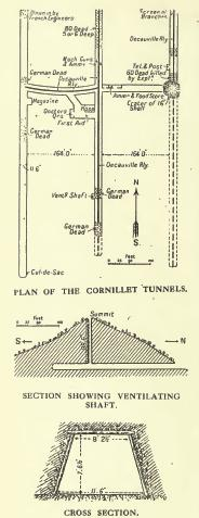 Diagram of tunnels dug under Mont Cornillet by the German army durig the Great War.